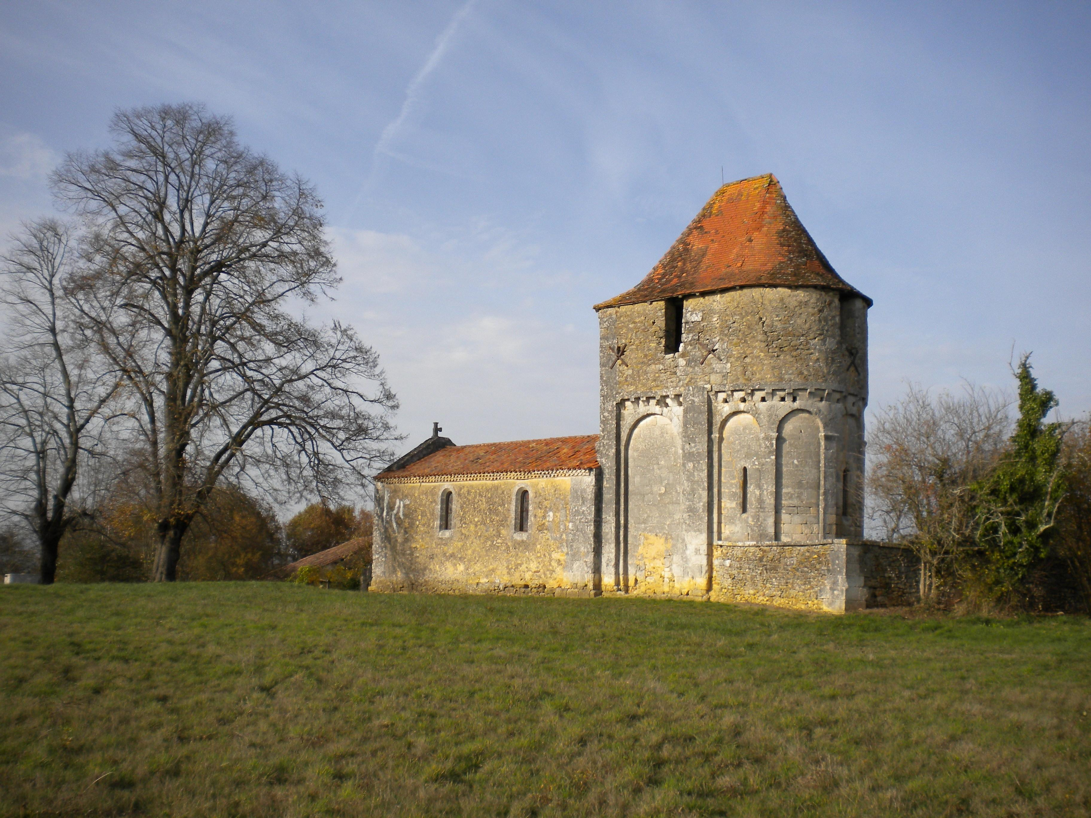 The church Saint-Fiacre in La Chapelle-Pommier, commune of Champeaux-et-la-Chapelle-Pommier in the Dordogne department, France. The photo is taken from the southwest.